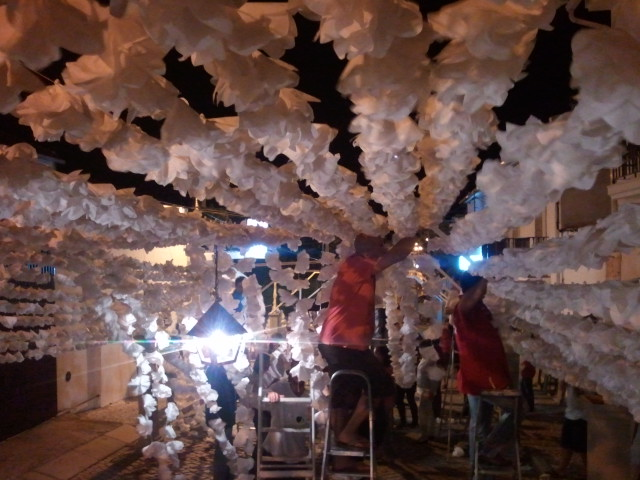 Realizou-se desde o final da tarde de dia 26 de Agosto seguindo pela madrugada de dia 27